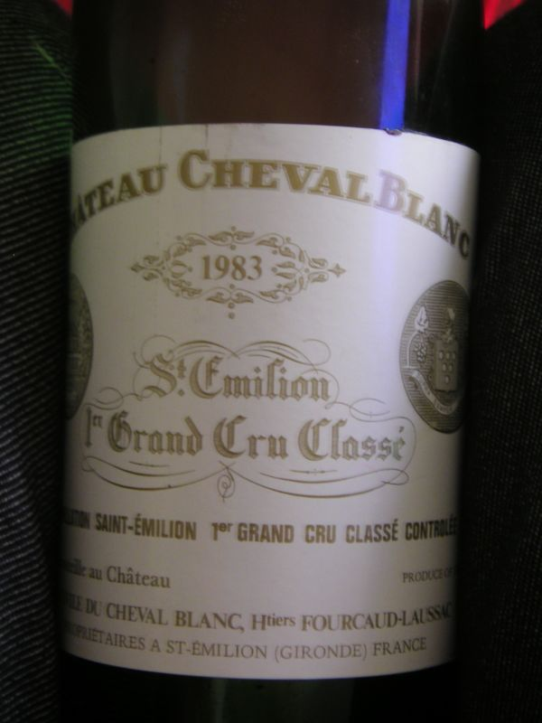 Label of the French wine Cheval blanc from the Bordeaux wine region of St Emilion. Made predominantly of Cabernet franc